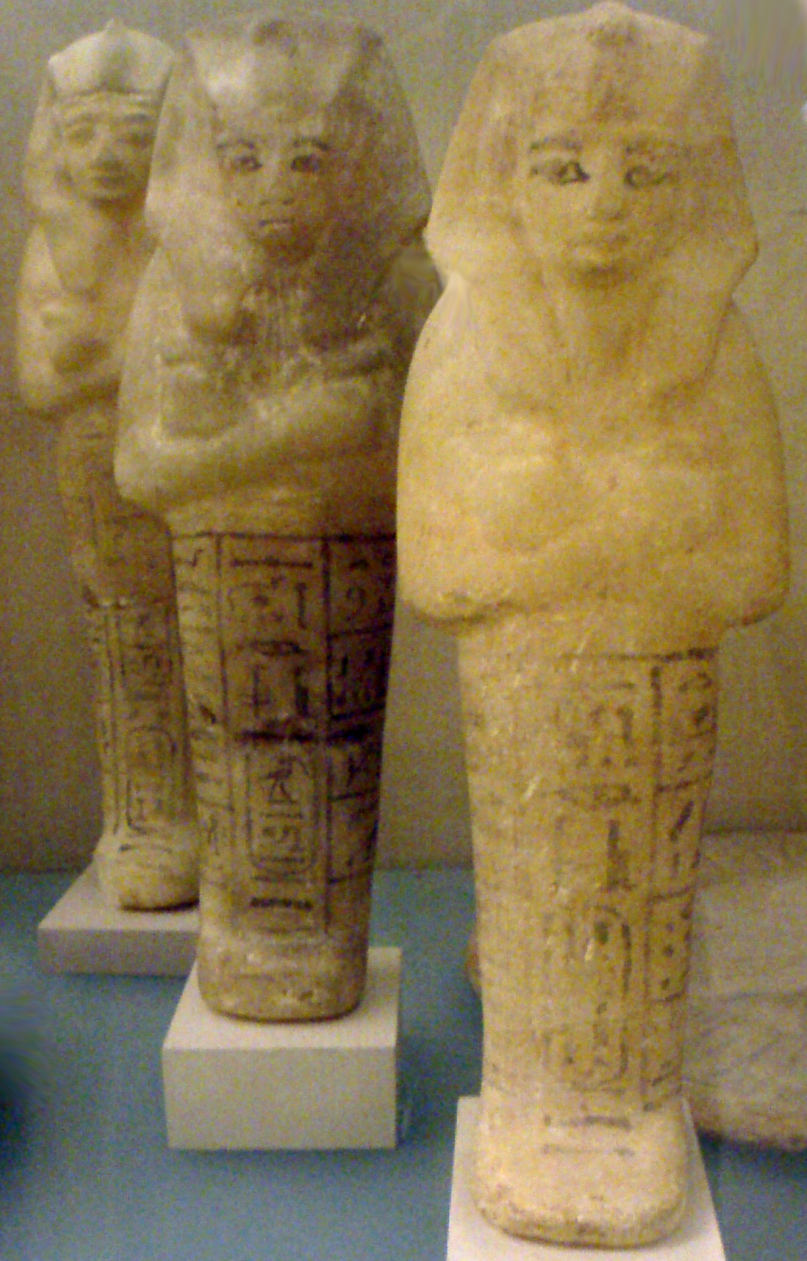 Shabtis from the tomb of the pharaoh Siptah, KV47 (*not* as referenced in the filename, KV54).